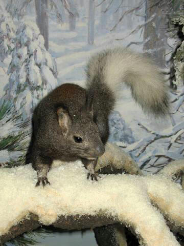 Description: Sciurus aberti kaibabensis, Kaibab Squirrel - Source: own work - Location: American Museum of Natural History, New York - Author: self, User:Stavenn